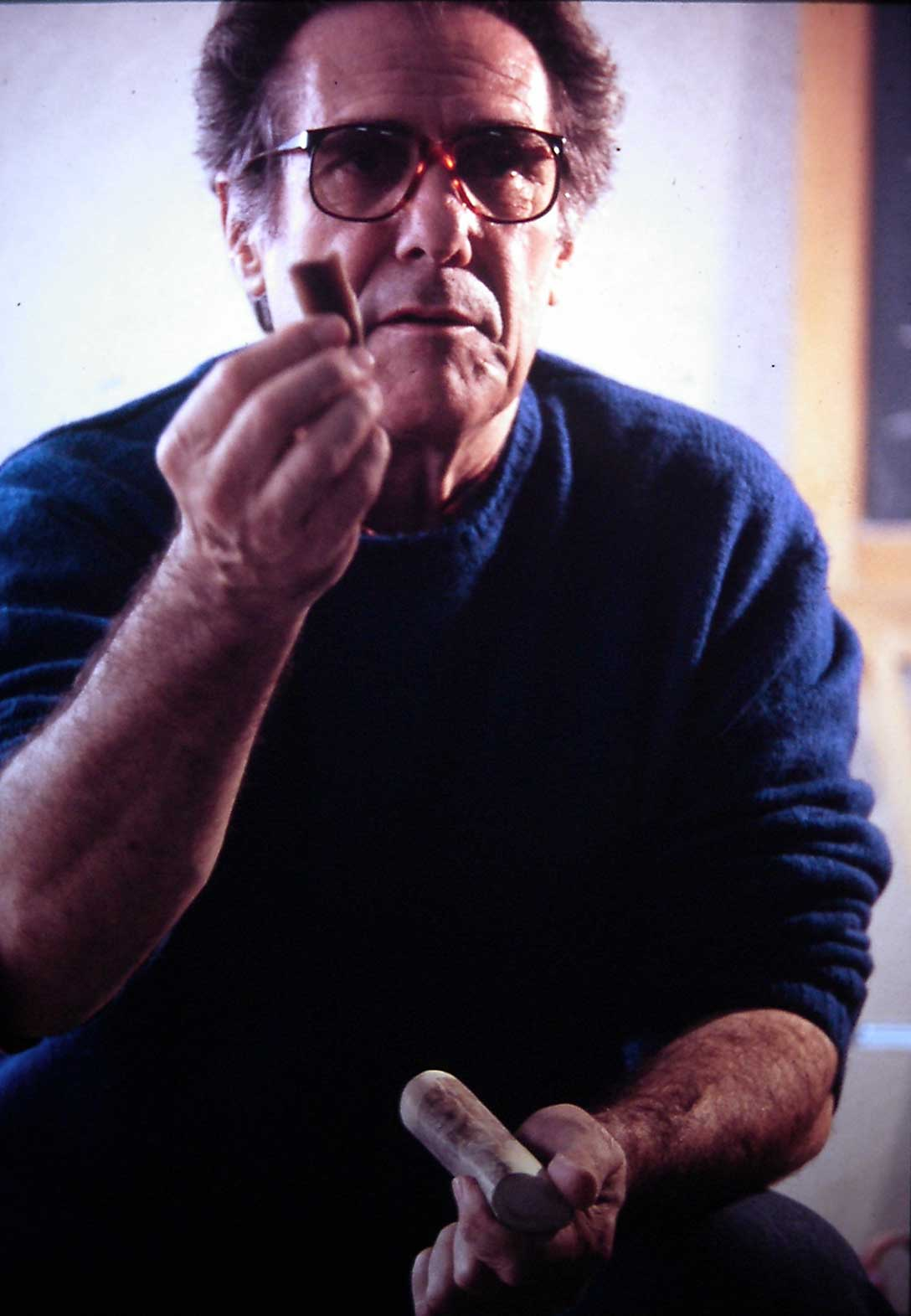 The prehistorian french, Jacques Tixier, teaches his pupils